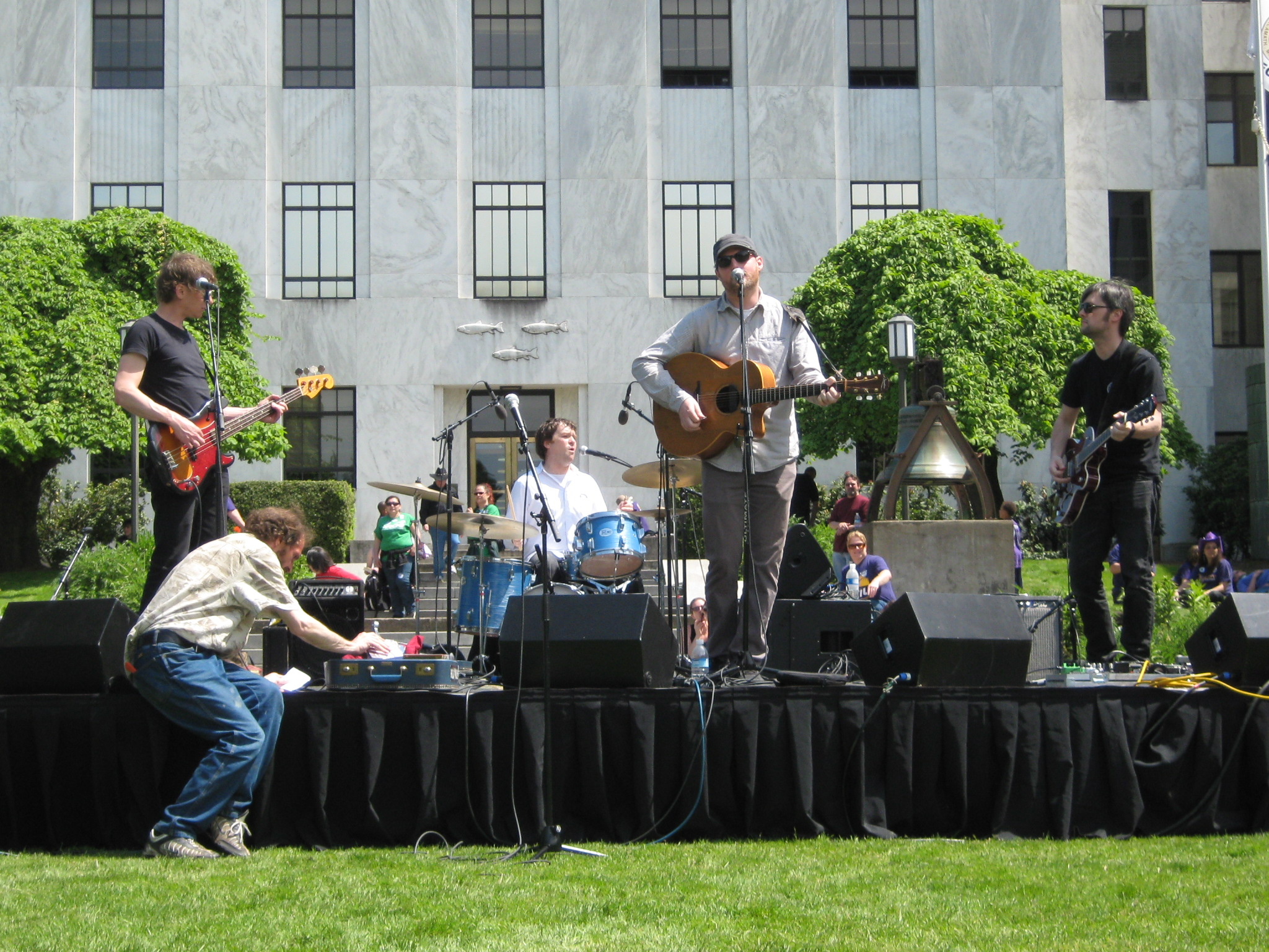 Casey Neill and the Norway Rats, including Ezra Holbrook on drums, playing at an SEIU-sponsored union rally in Willson Park next to the Oregon State Capitol, Salem, Oregon, May 20, 2011